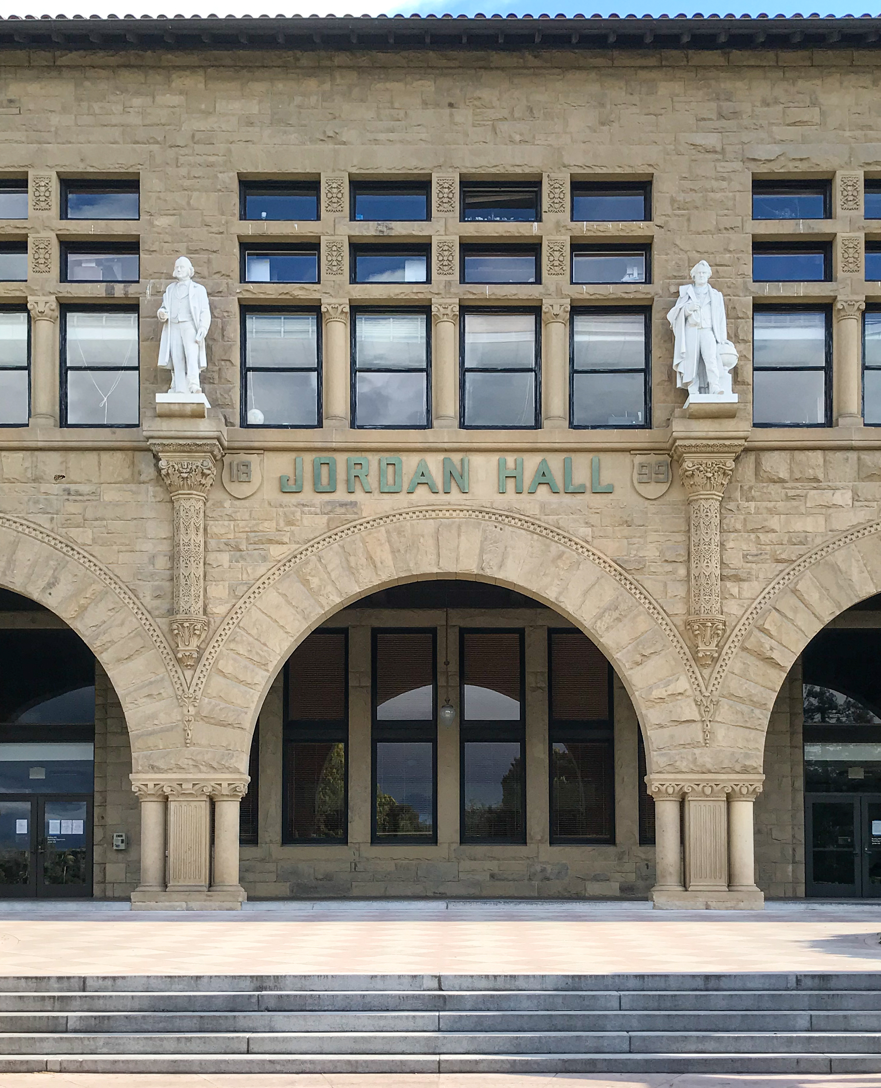 Jordan Hall (Building 420) at the front of the Stanford University Main Quad Stanford University, Palo Alto, California, USA